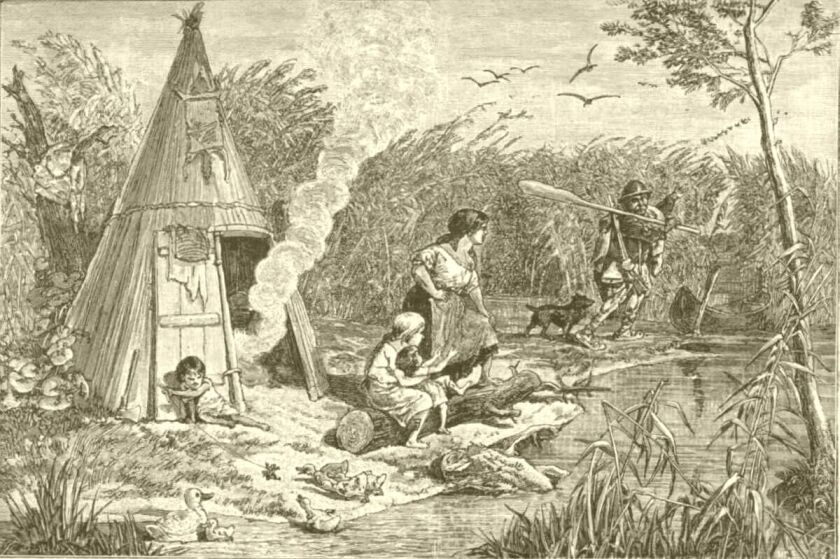 The pákász (hungarian wild fischer living in swamps) with his family